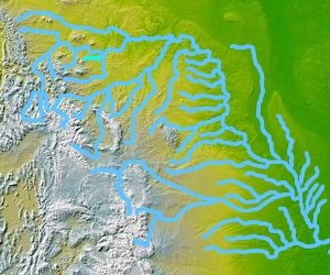 Map of the Sacagawea River — in north-central Montana. Credits ©2004 Matthew Trump